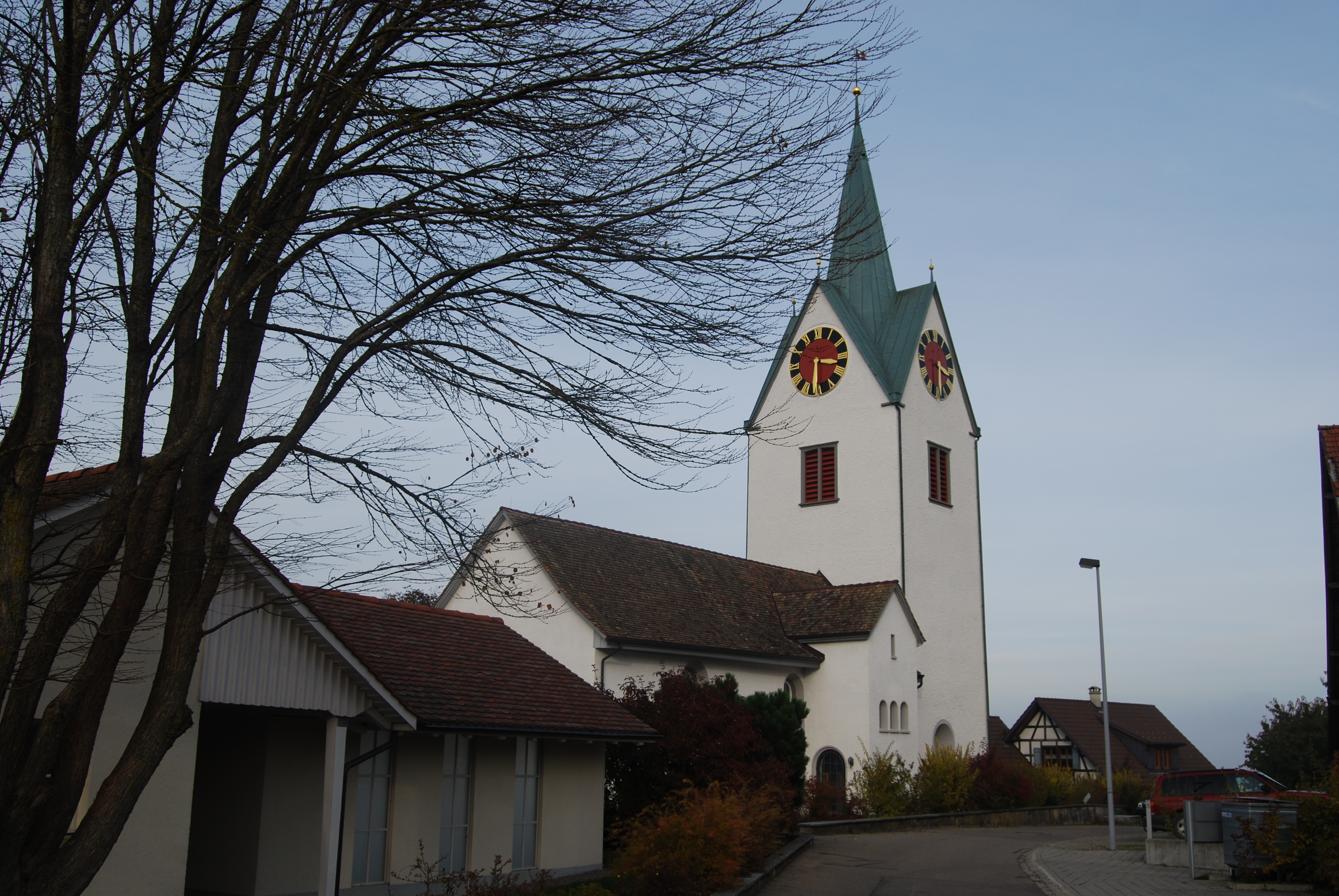 Church of Buch am Irchel, canton of Zürich, SwitzerlandEsperanto: Preĝejo de Buch ĉe Irchel, Kantono Zuriko, Svislando